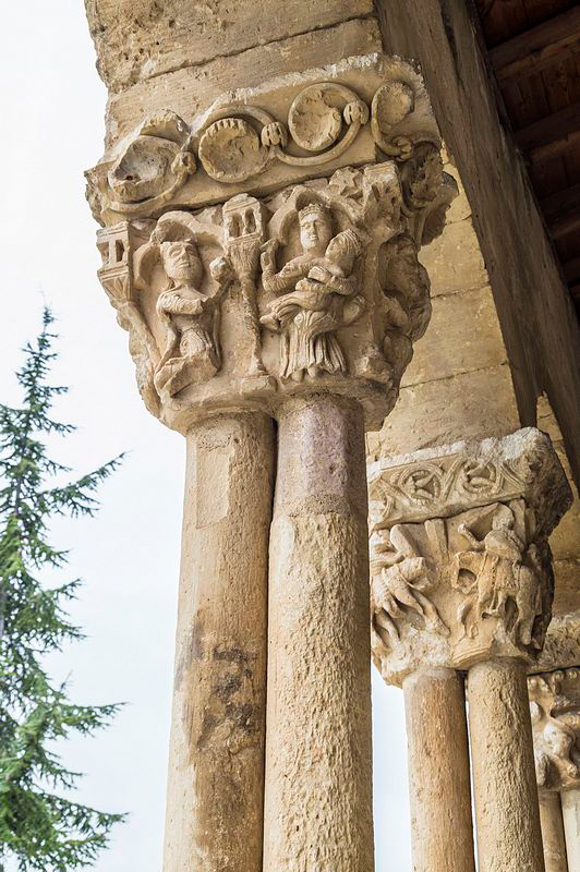 Iglesia románcia de San Miguel siglo XII en Sotosalbos